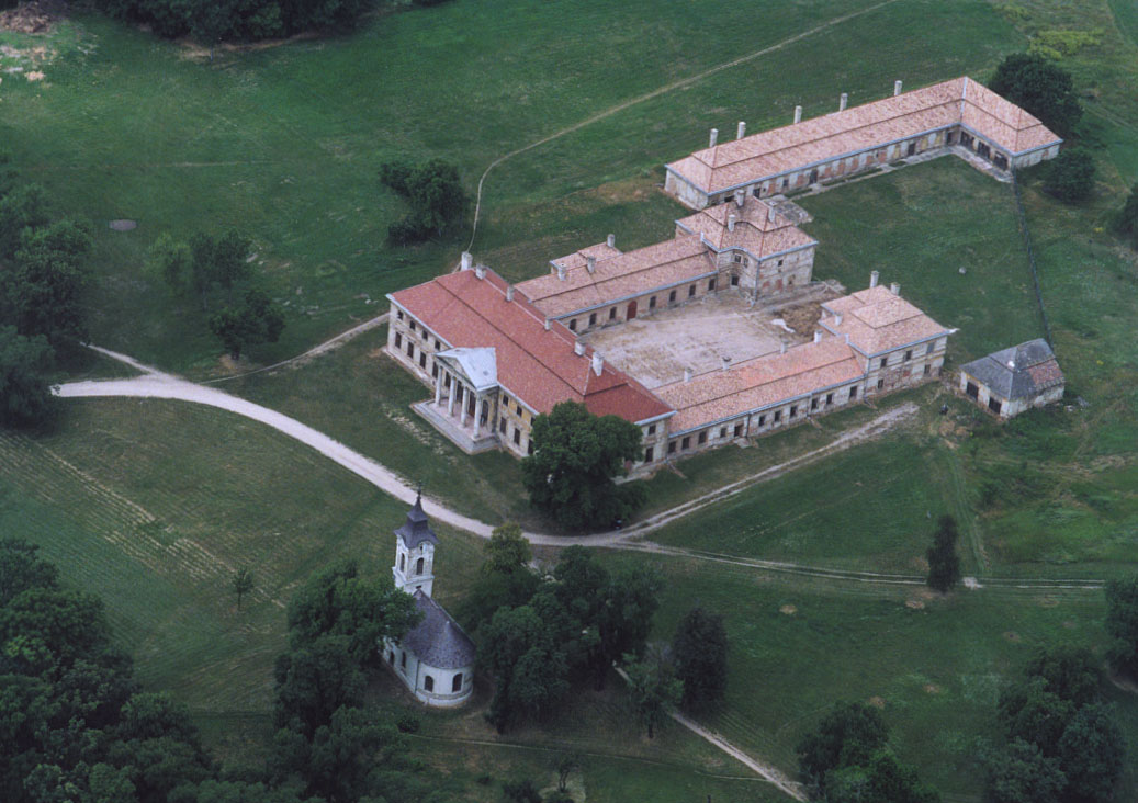 Palace- Lovasberény - Hungary - Europe (Cziráky Mansion)